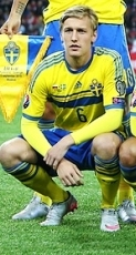 Emil Forsberg